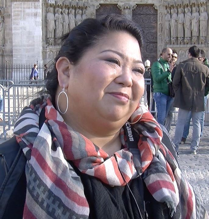 American tourist Dawn Mabalon stands in front of Notre Dame Cathedral in Paris, France, Nov. 15, 2015.